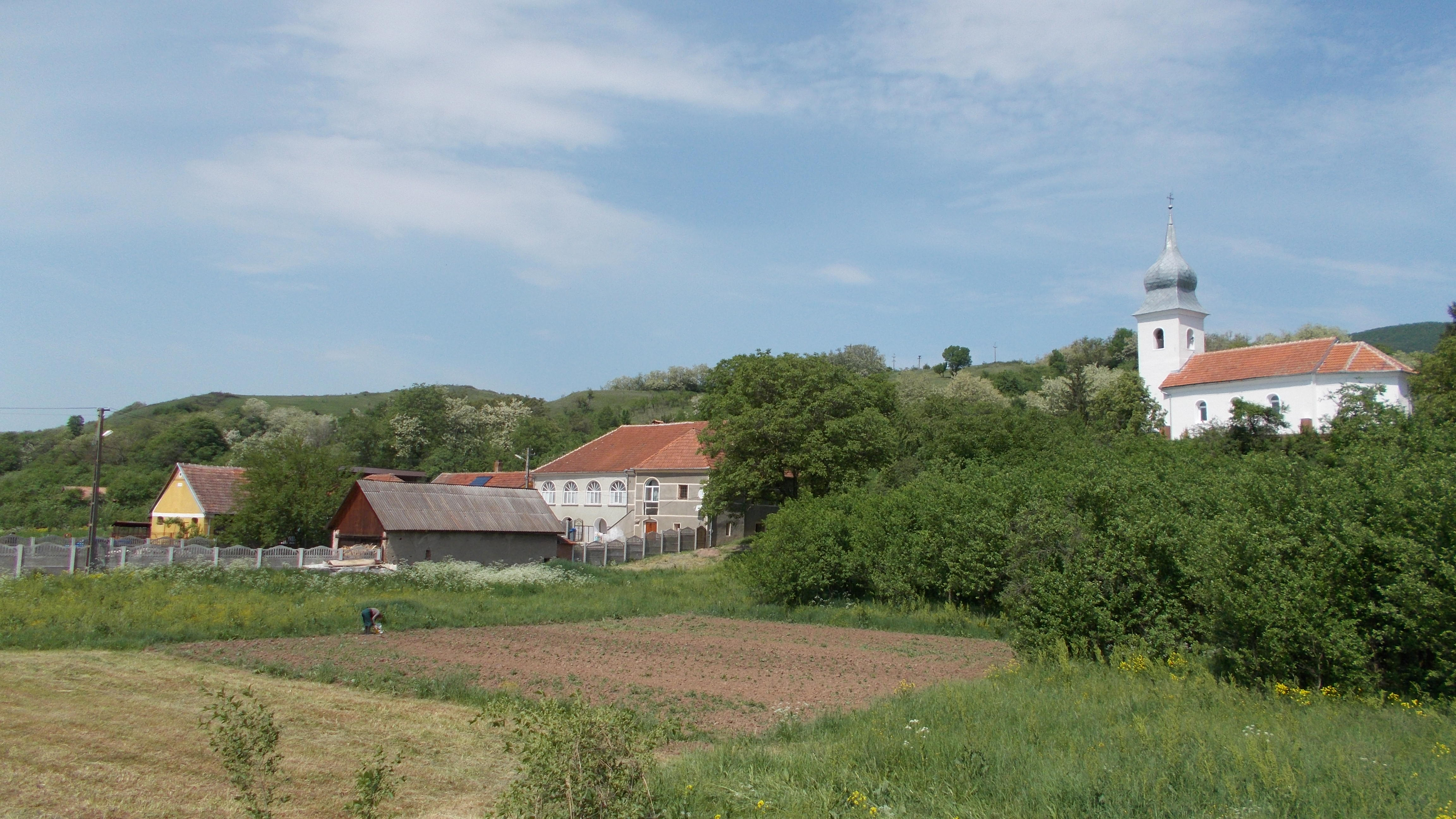 Fărcădin, Hunedoara County, Romania